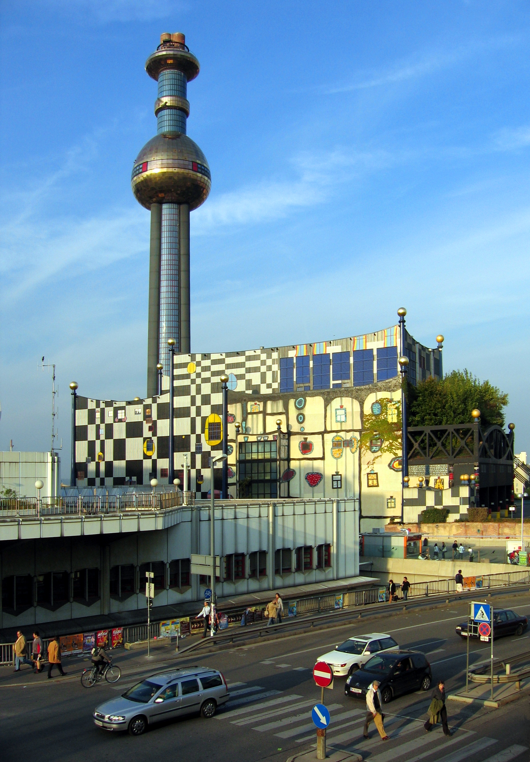 South-southwest view of District Heating Plant Spittelau, Vienna. Exterior design by Friedensreich Hundertwasser. Late afternoon picture at low sun angle.